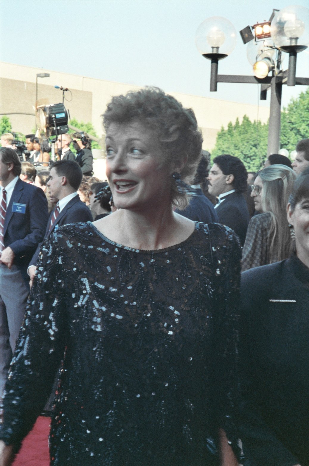 Diana Mudaur at the 1990 Emmy Awards. Scanned from the original 35MM film negative.